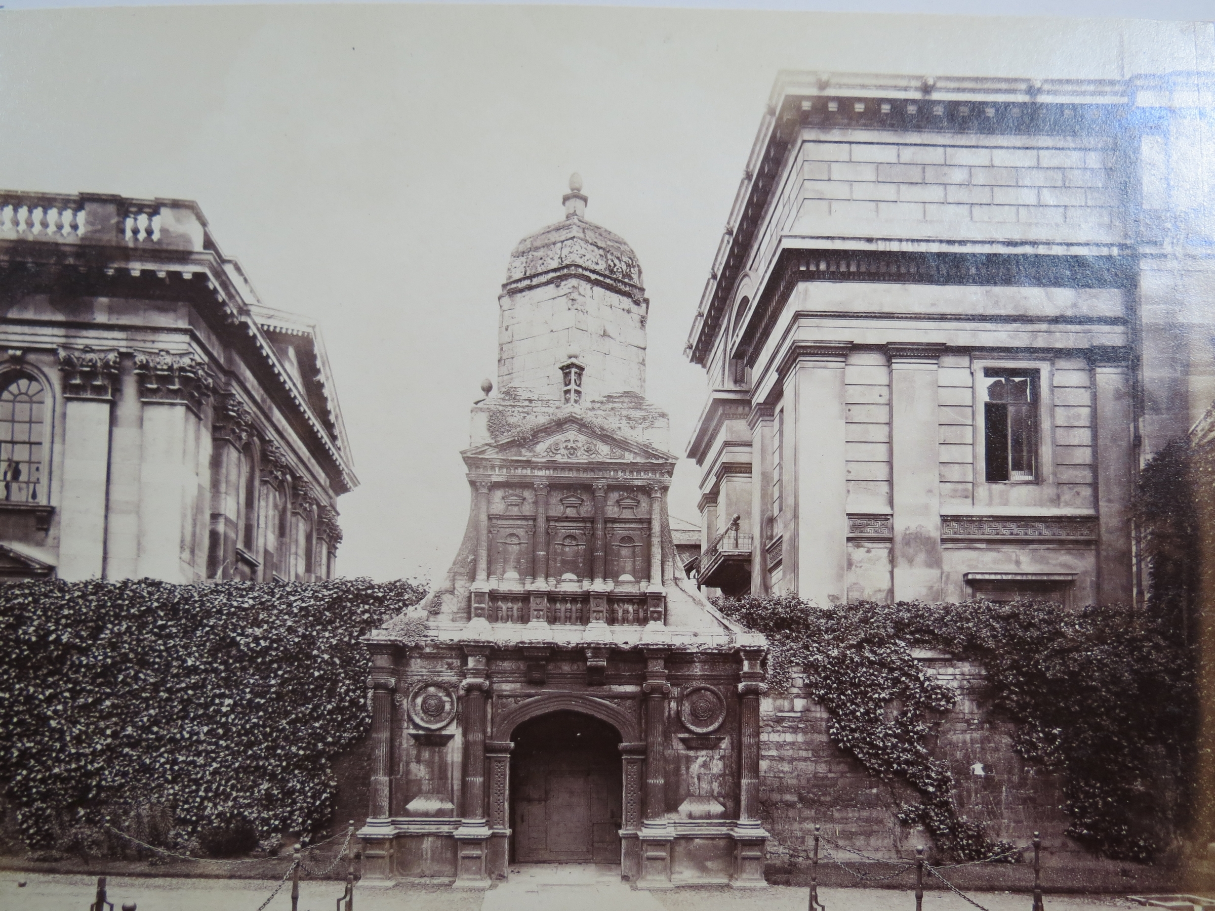 Gate of Honour, Gonville & Caius College, Cambridge University. Image taken from original albumen print from a bound album of 58 Cambridge University photographs. Original 19th century album in the possession of Kimberly Blaker, New Boston Fine and Rare Books.